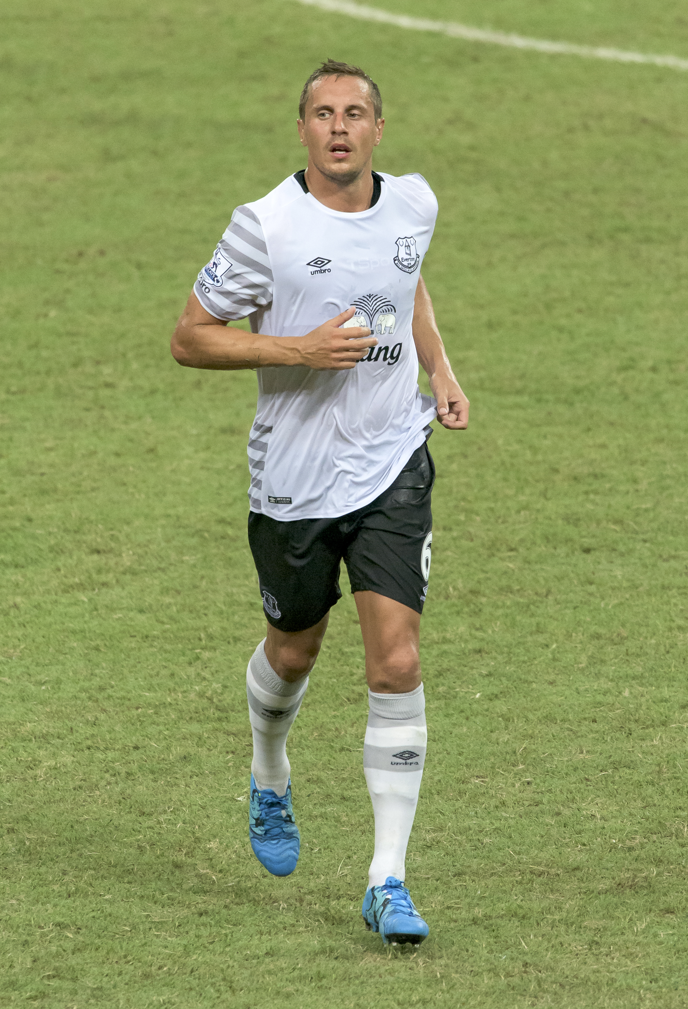 phil jagielka 2015 everton singapore barclays asia